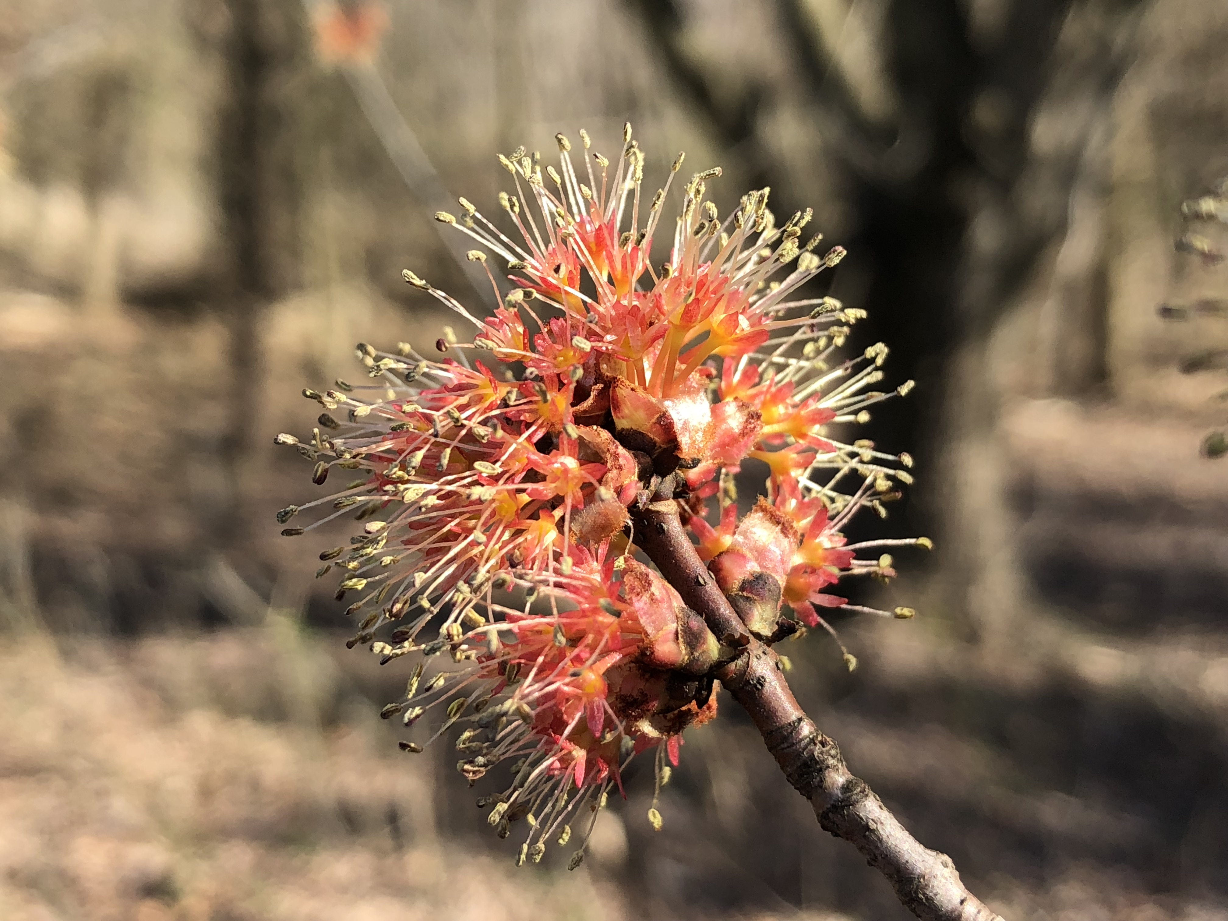 Male Red Maple flowers along a walking path in the Franklin Farm section of Oak Hill, Fairfax County, Virginia